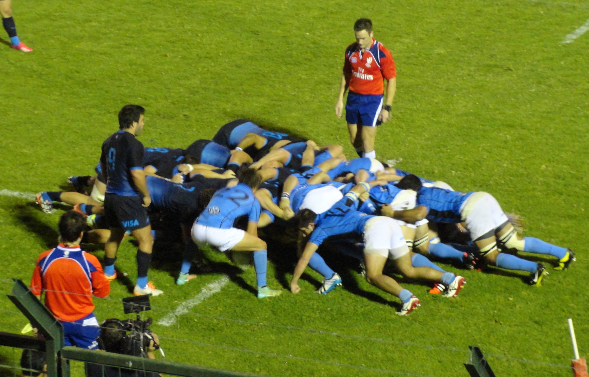 Uruguay's Teros vs Argentina XV match at the 2016 Americas Rugby Championship.